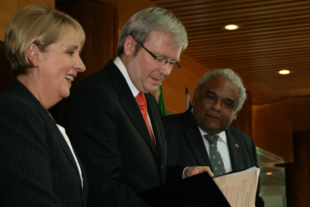 Jenny Macklin (left) at the apology for the stolen generations.